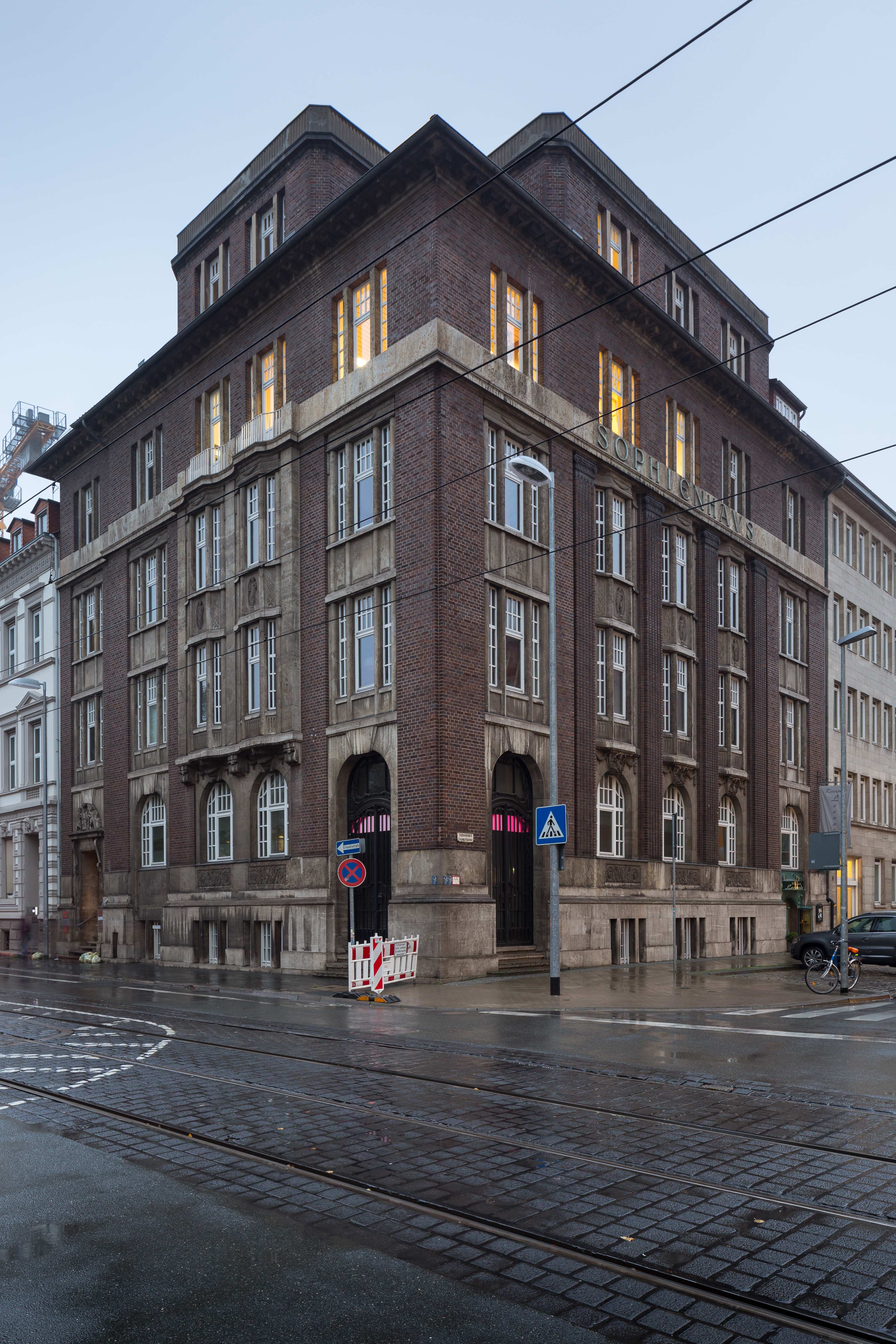 Sophienhaus building located at Prinzentrasse no. 16 and Sophienstrasse in Mitte quarter of Hannover, Germany.